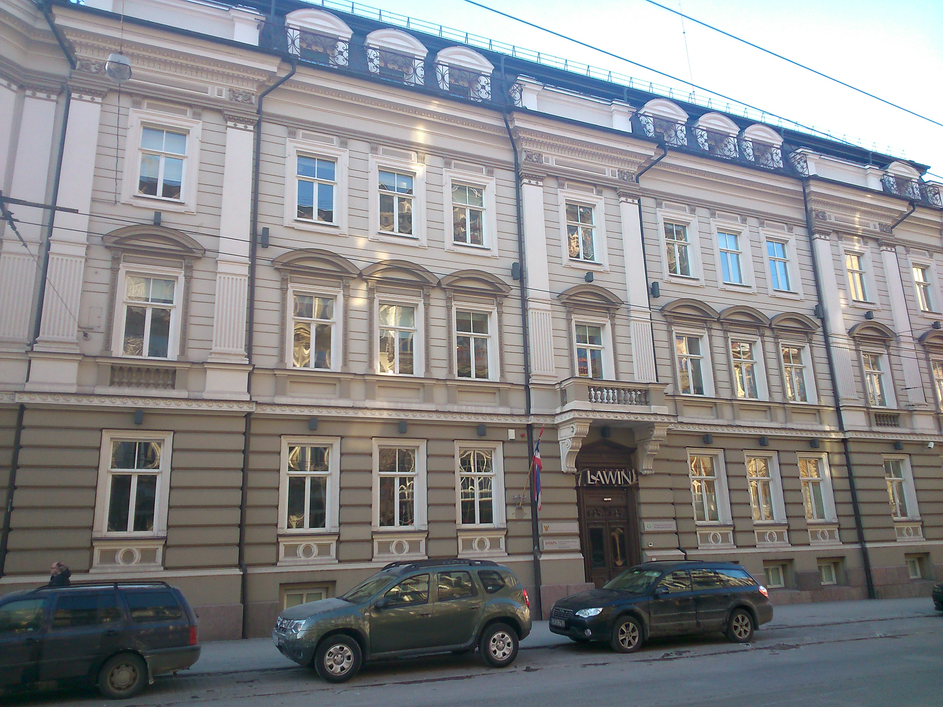 Lawin